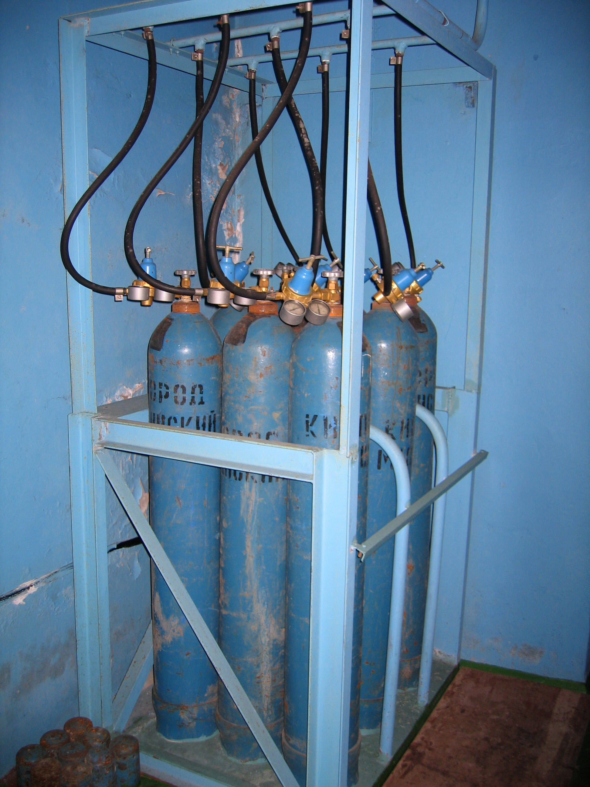 Emergency stock of oxygen in bombproof shelter